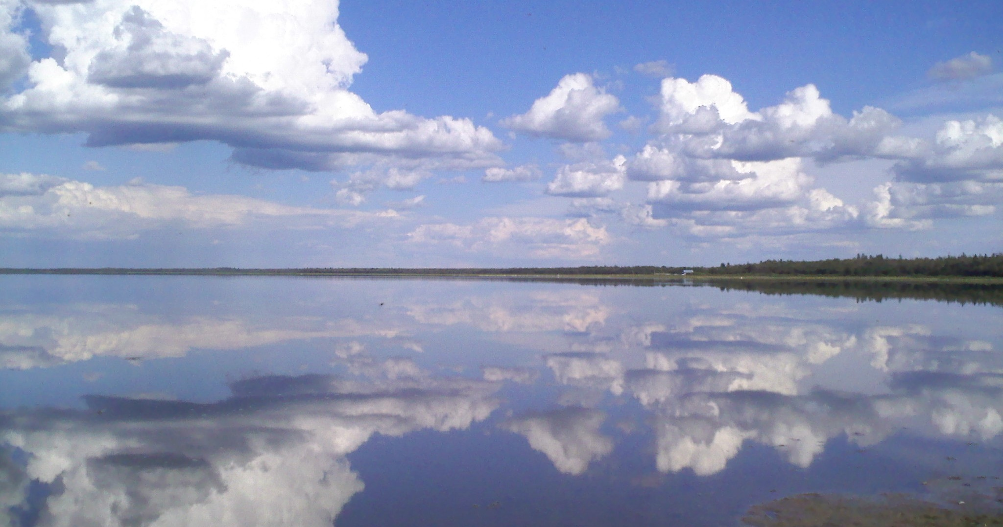 Cooking Lake from the west shore, at South Cooking Lake, Alberta.